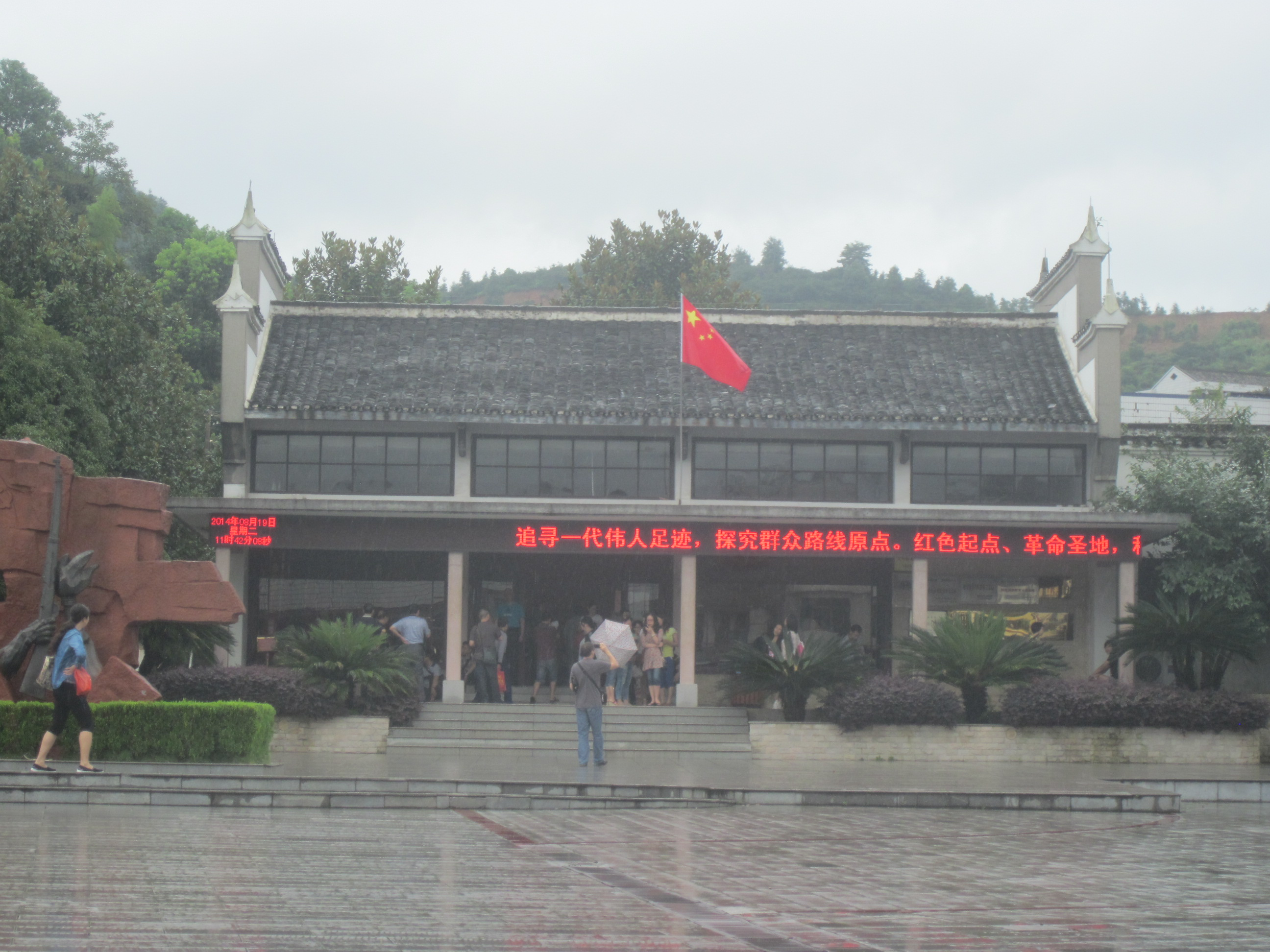 The Site of Joining Forces in Wenjiashi of Autumn Harvest Uprising (Chinese: 秋收起义文家市会师旧址) , located in Liuyang City, Hunan Province, is one of the famous tourist attractions in Changsha.